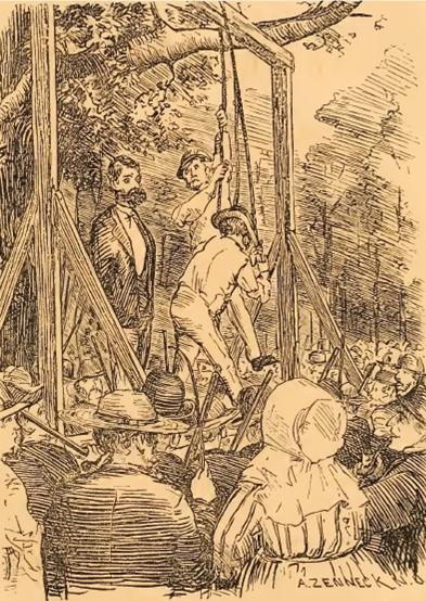 Pitts, J.R.S. 1874. Life and Bloody Career of the Executed Criminal, James Copeland. Pilot Publishing Co., Jackson, MS. 246 p. (Available at: Internet Archive [1]) The execution of James Copeland (page 118 from Pitts' 1874 book on his life).